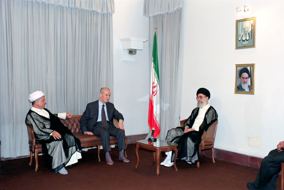 Hafez al-Assad visit to Iran, 1 August 1997, meets with Supreme Leader Ali Khamenei and President A. H. Rafsanjani